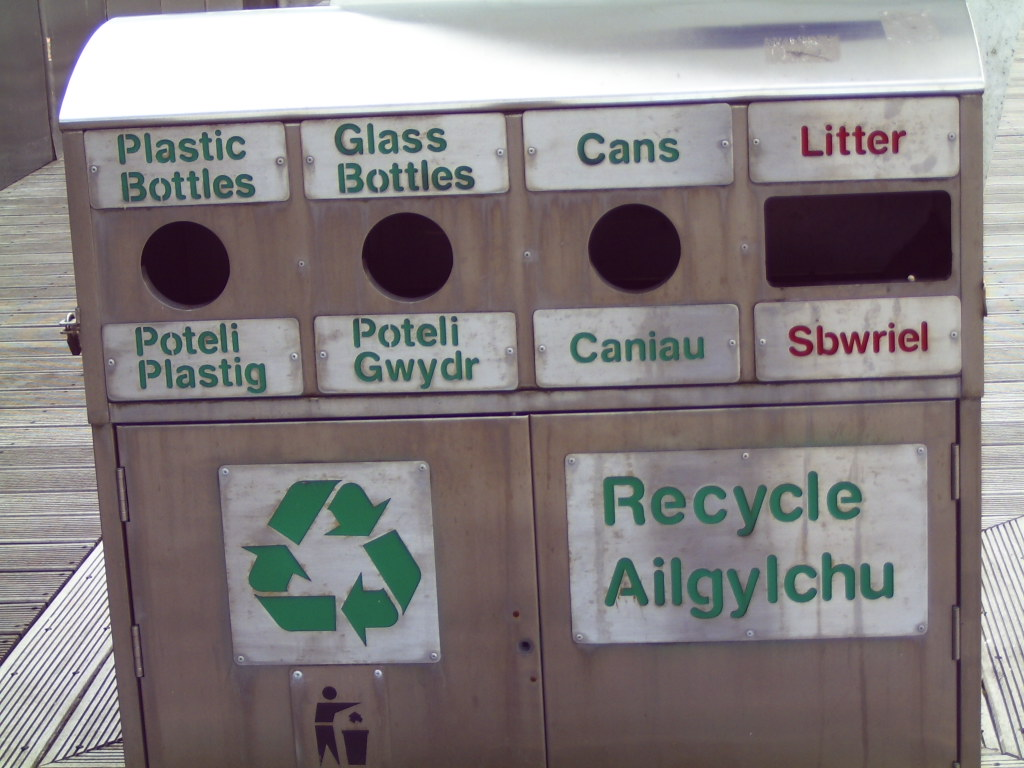 bilingual recycling box in Cardiff/Wales